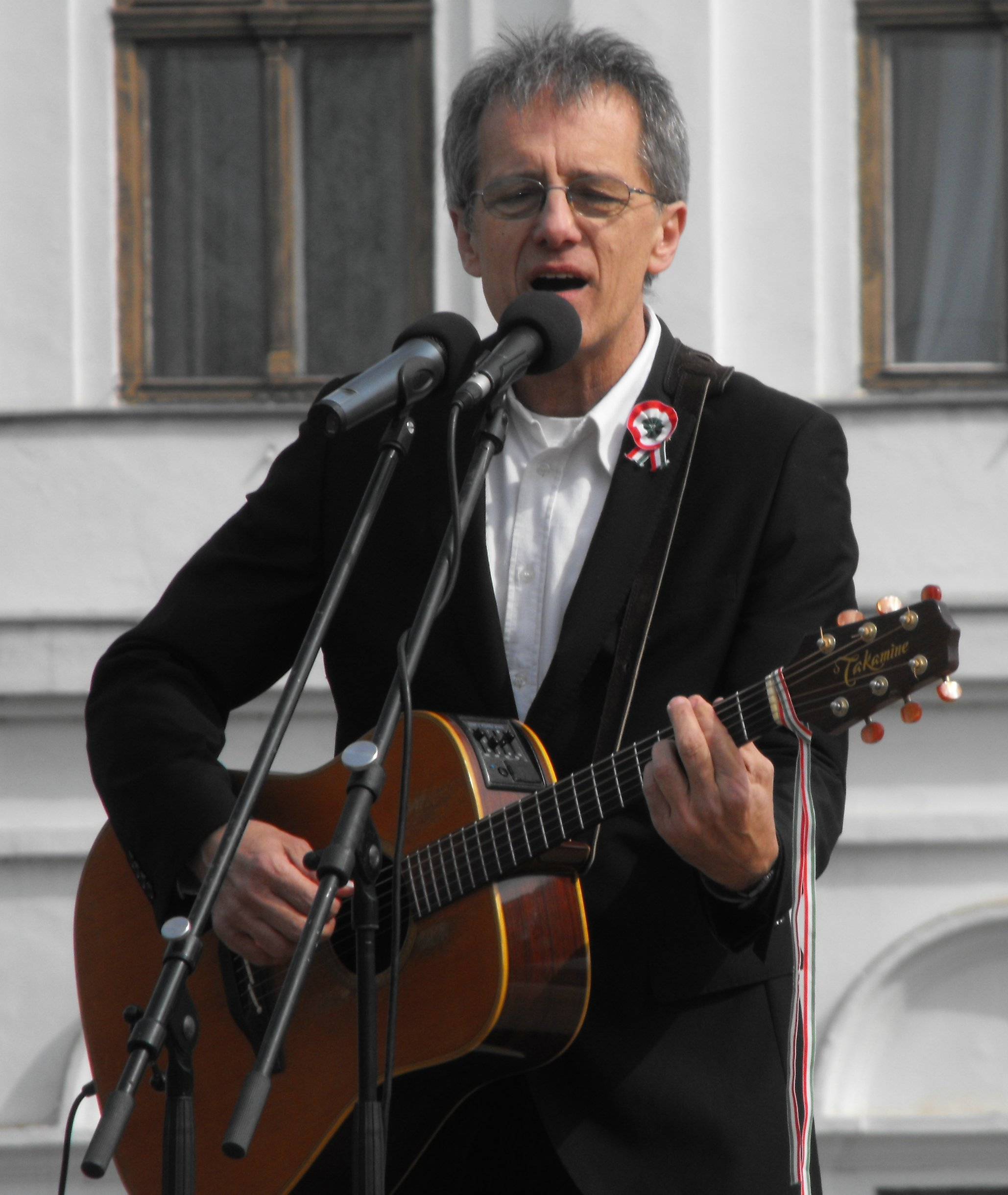 Péter Huzella, Hungarian musician performing a song on the nation holiday of 15 March 2009 in Makó, Hungary.